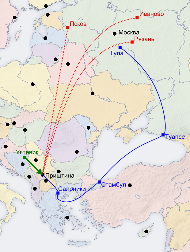 Russian KFOR troops redeployment